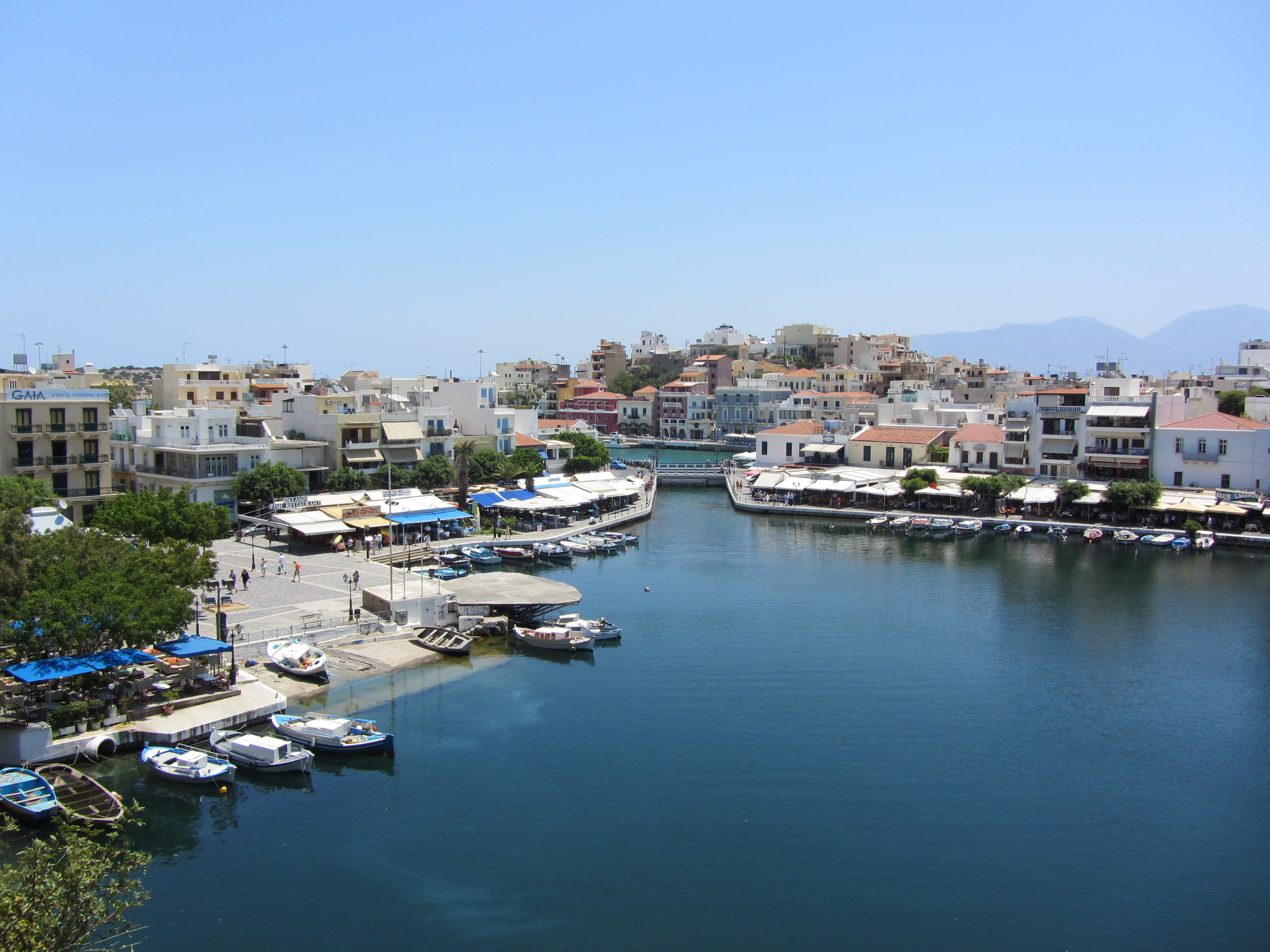 A view on the Lake Voulismeni in the city of Agios Nikolaos on the Island of Crete.